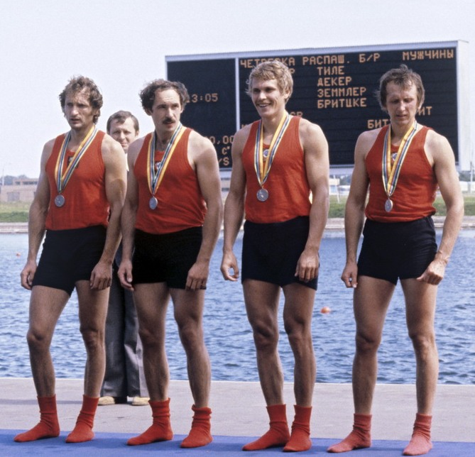 “Alexei Kamkin, Valery Dolinin, Alexei Kulagin, Vitaly Eliseyev”. Silver medalists in men's coxless fours rowing event, left to right: Alexei Kamkin, Valery Dolinin, Alexei Kulagin, Vitaly Eliseyev. XXII Summer Olympic Games in Moscow. Canoeing and rowing basin in Krylatskoye. *